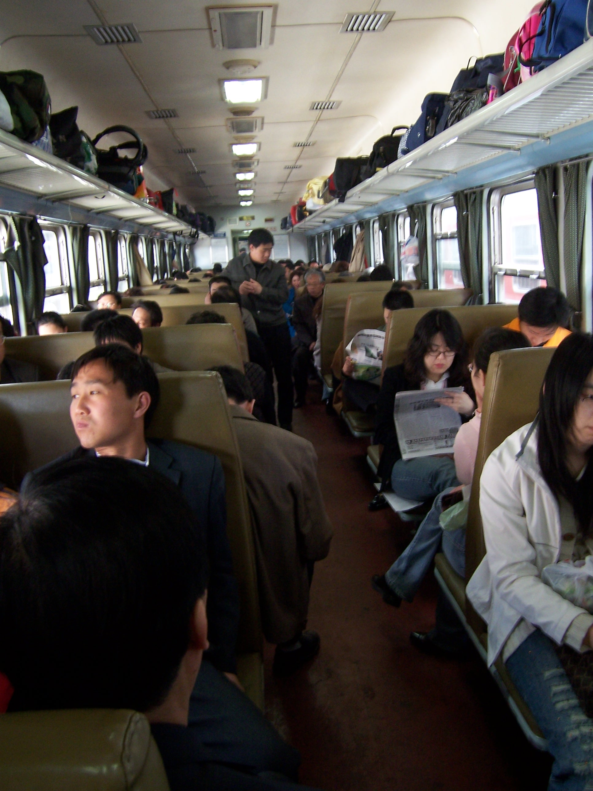 China Railway Hard seat coache Interior 中国铁路硬座客车